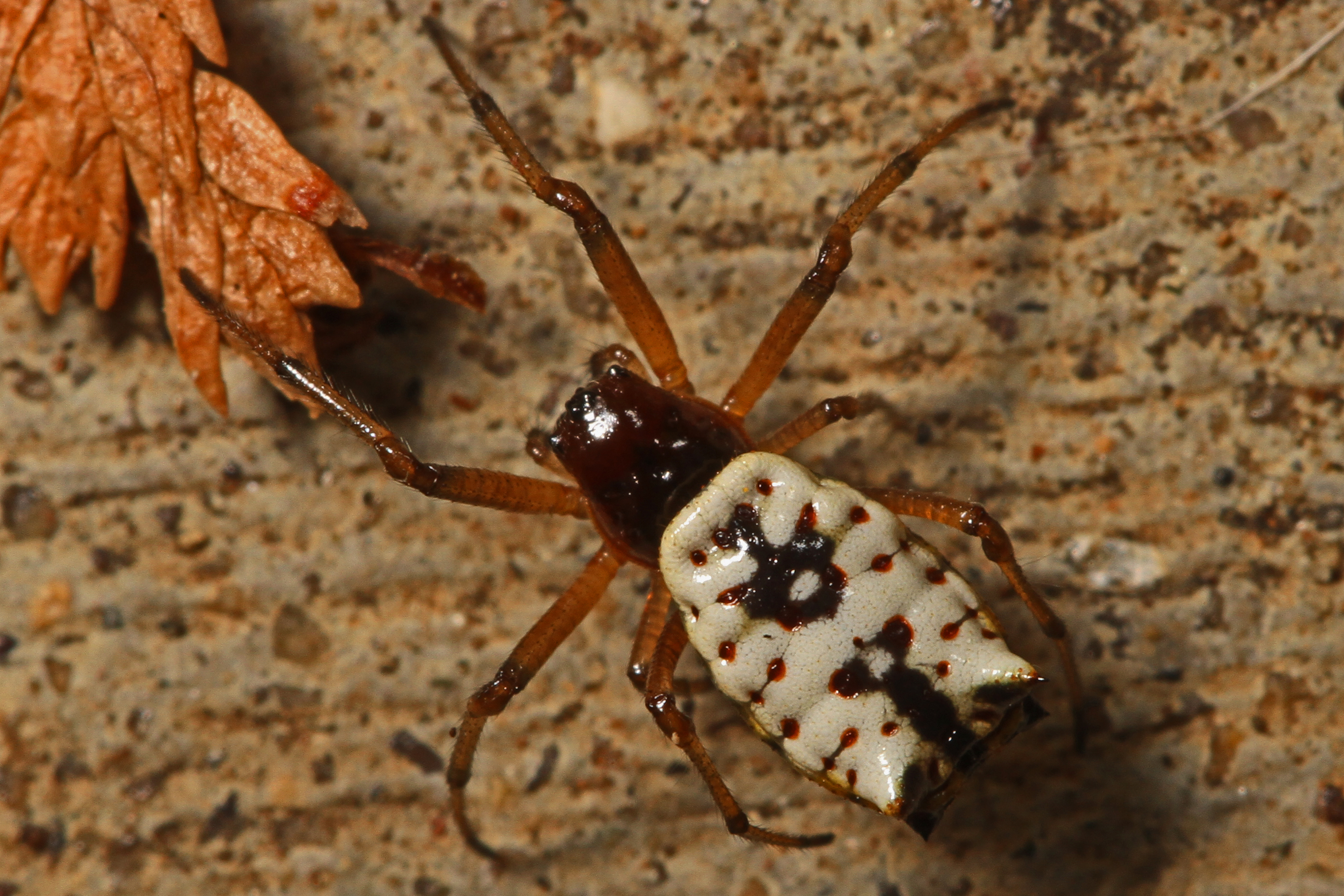 White Micrathena - Micrathena mitrata, Woodbridge, Virginia. I had only seen one of these spiders previously, about 500 miles away from where I live. Imagine my surprise when I returned from a hike about 3 miles from home and found this spider on my backpack.